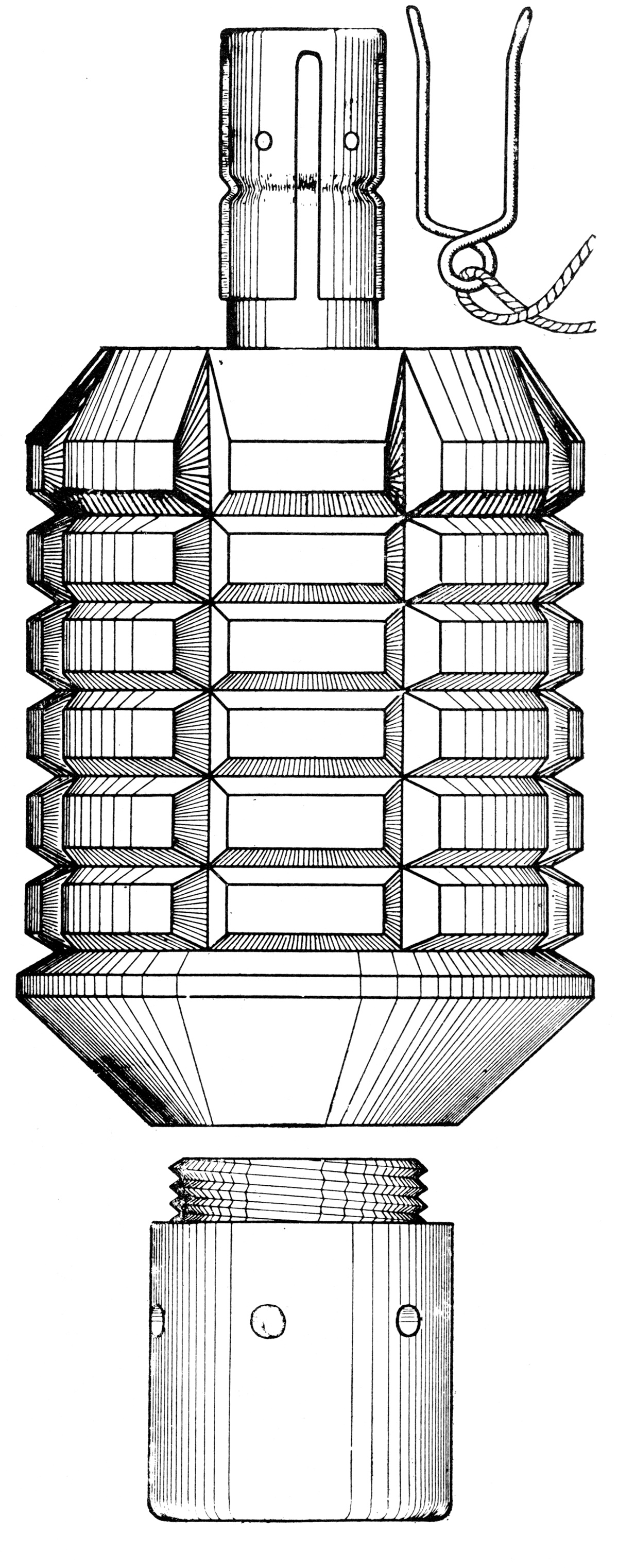 A drawing of a Japanese Type 10 grenade from a US technical manual.